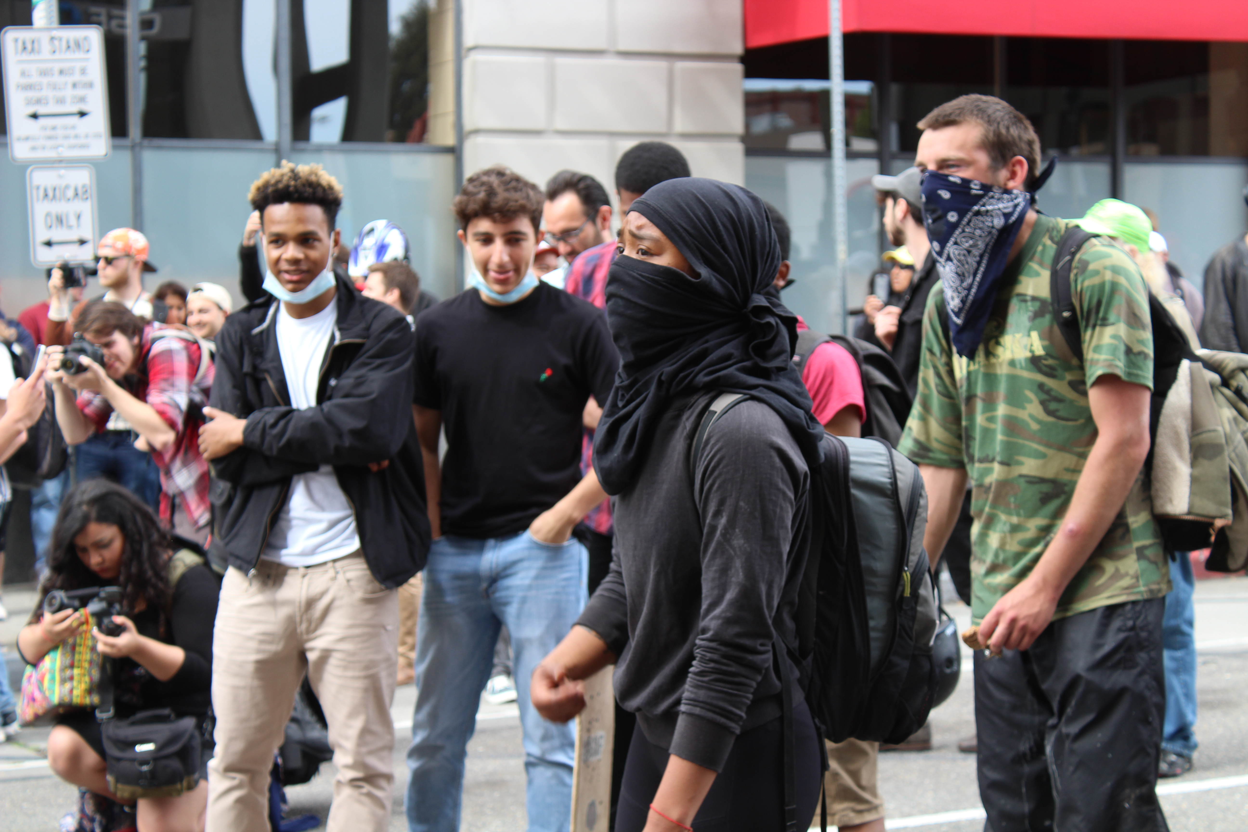 Woman confronts police at Berkeley Protest April 15, 2017